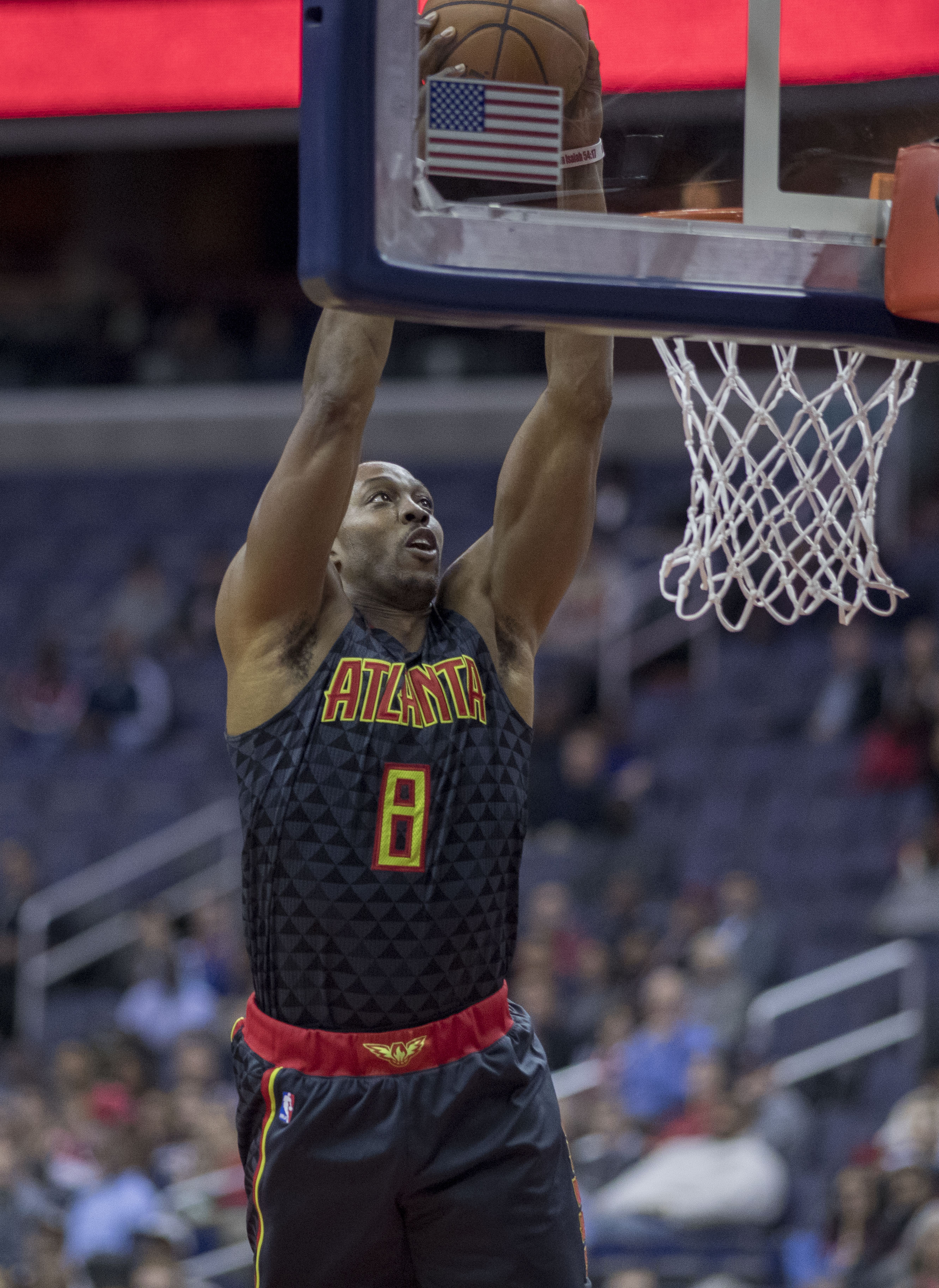 Hawks at Wizards 11/4/16